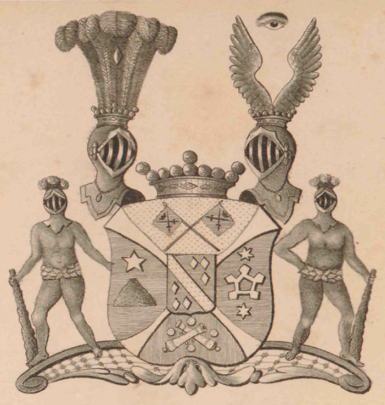 Coat of arms of Mannerheim family (finnish barons)